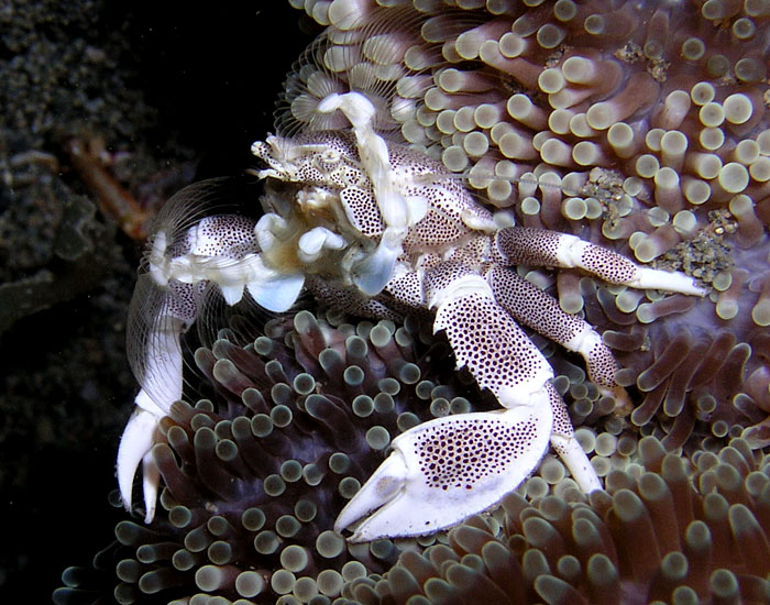 Neopetrolisthes maculatus using adapted front legs to comb the water for food particles.